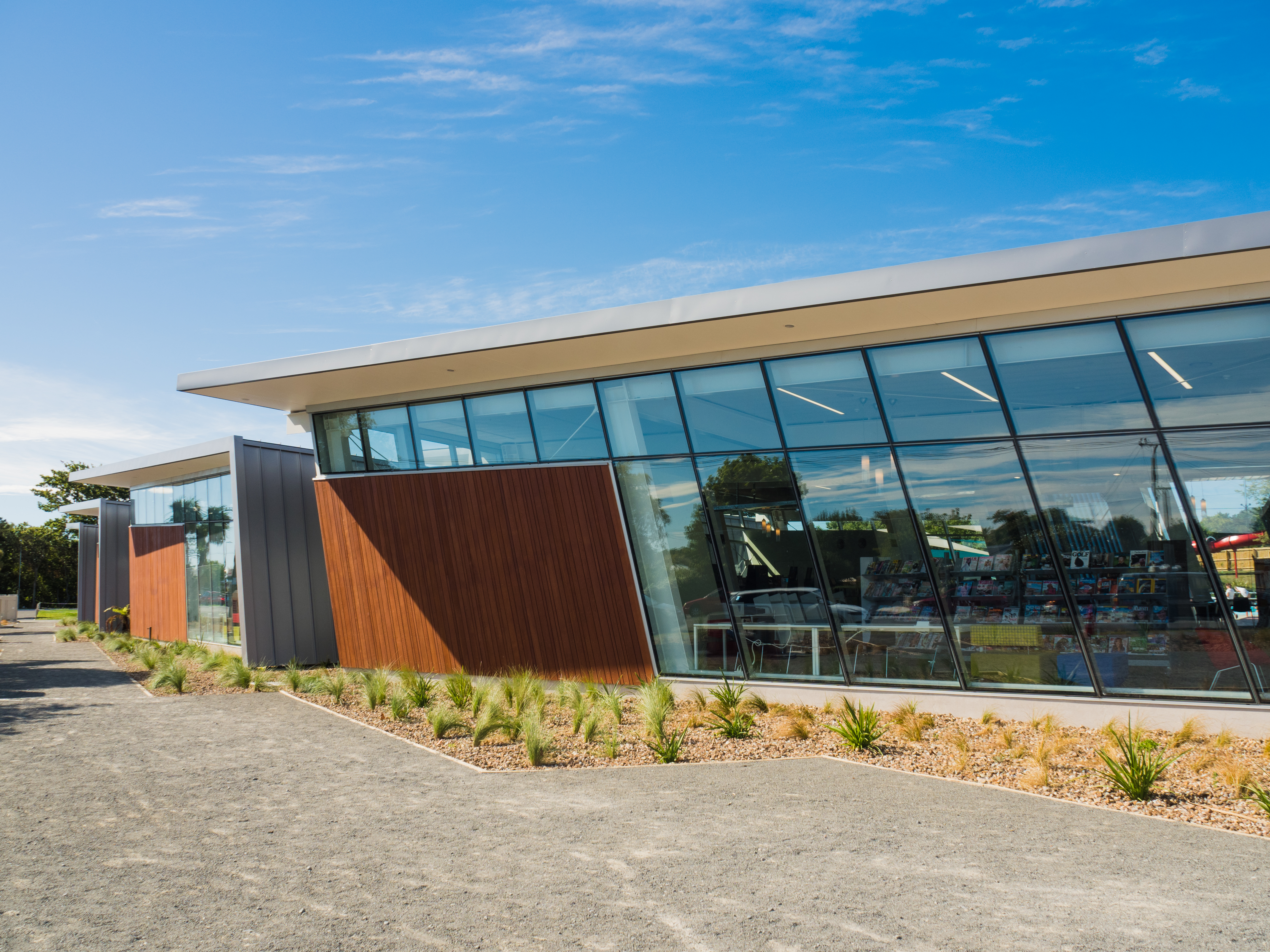 new library and community facility in Halswell